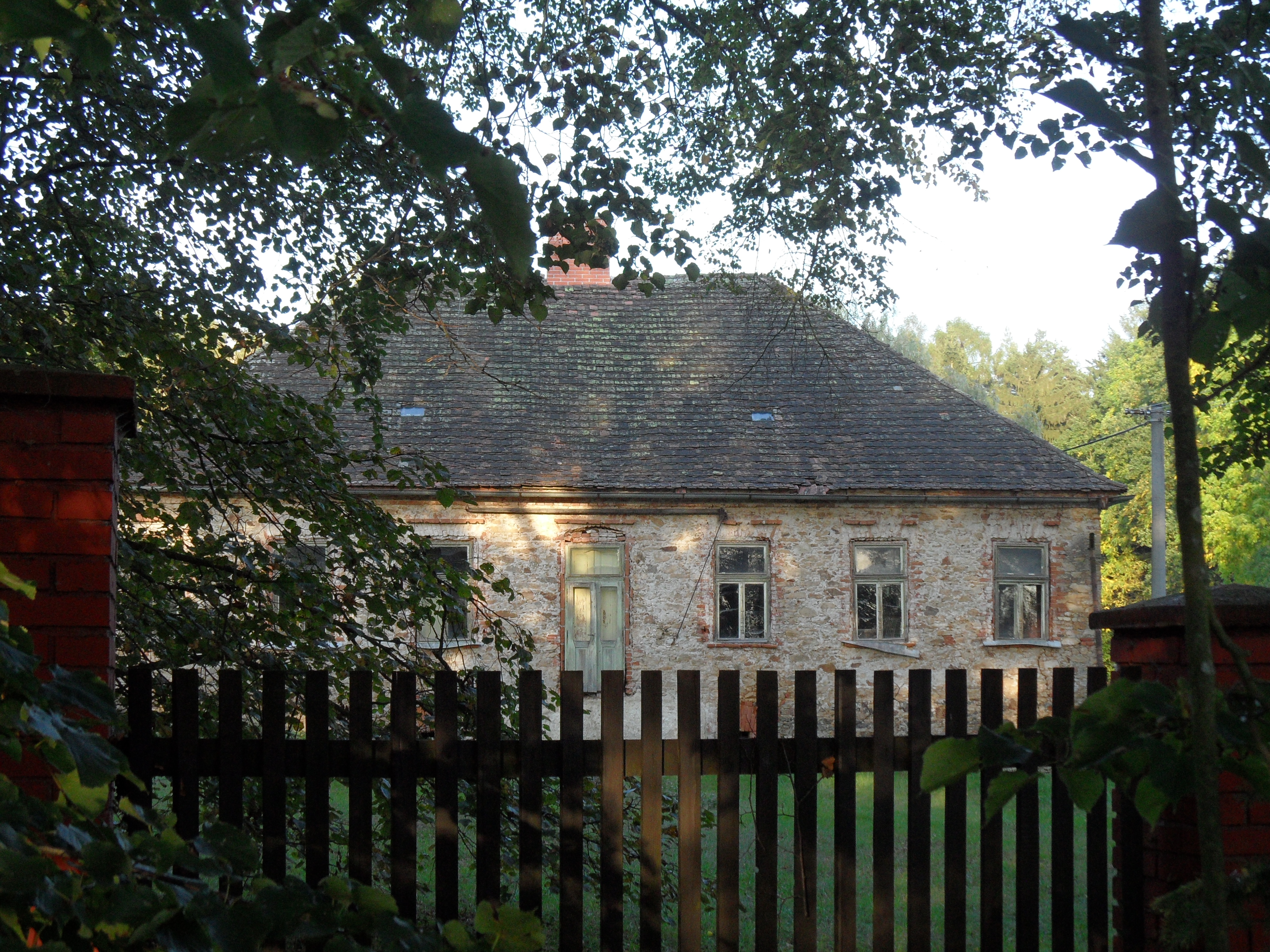 Fibichova myslivna (Forester's House) B. Main Building, View from Entrance (from South-West): Birthplace of Zdeněk Fibich, Kutná Hora District, the Czech Republic.